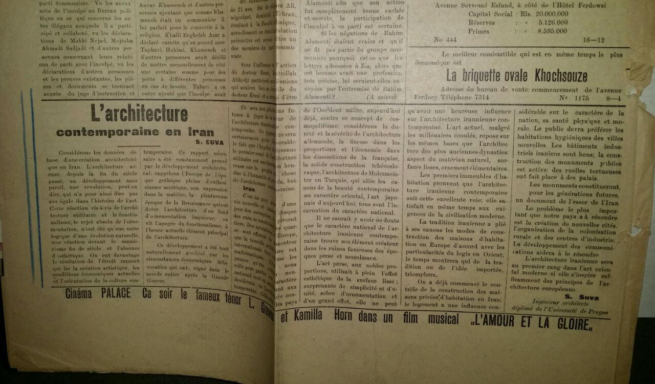 The article in the Tehran Press